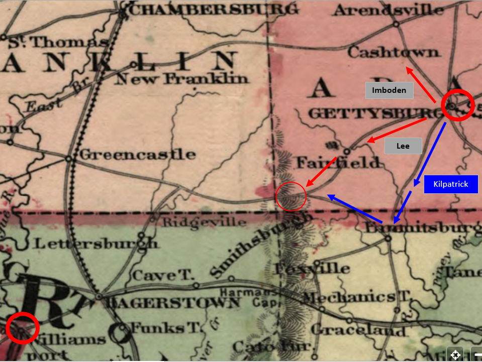 The map shows the area between Gettysburg, Pennsylvania and Williamsport, Maryland during the American Civil War. The Battle of Gettysburg took place on July 1-3, 1863. The retreat to Williamsport to cross back into Virginia followed the battle.